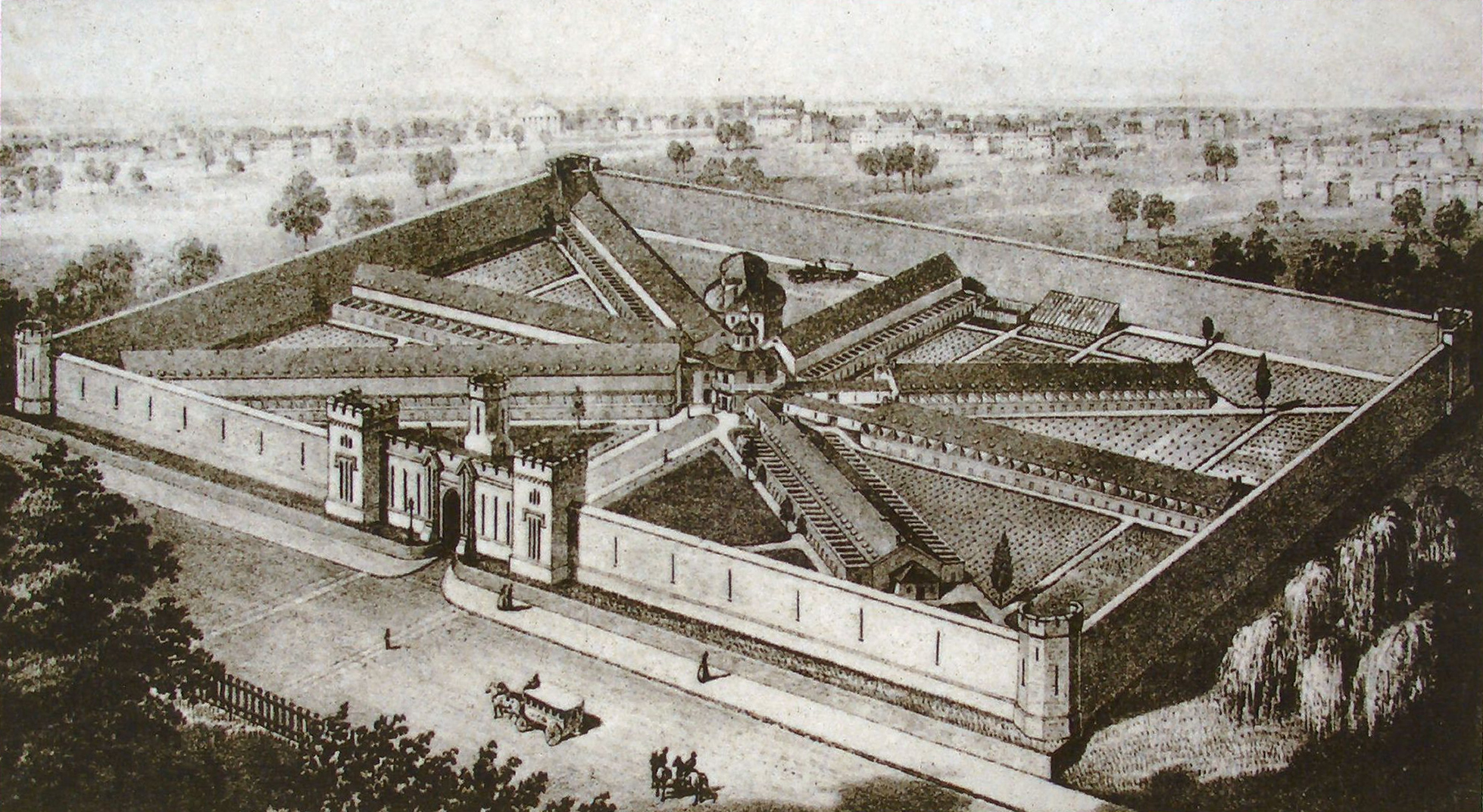 The State Penitentiary for the Eastern District of Pennsylvania, Lithograph by P.S: Duval and Co., 1855.